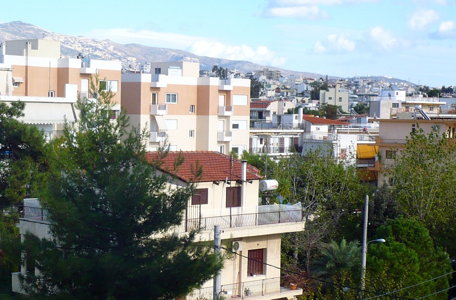 Irakleio skyline